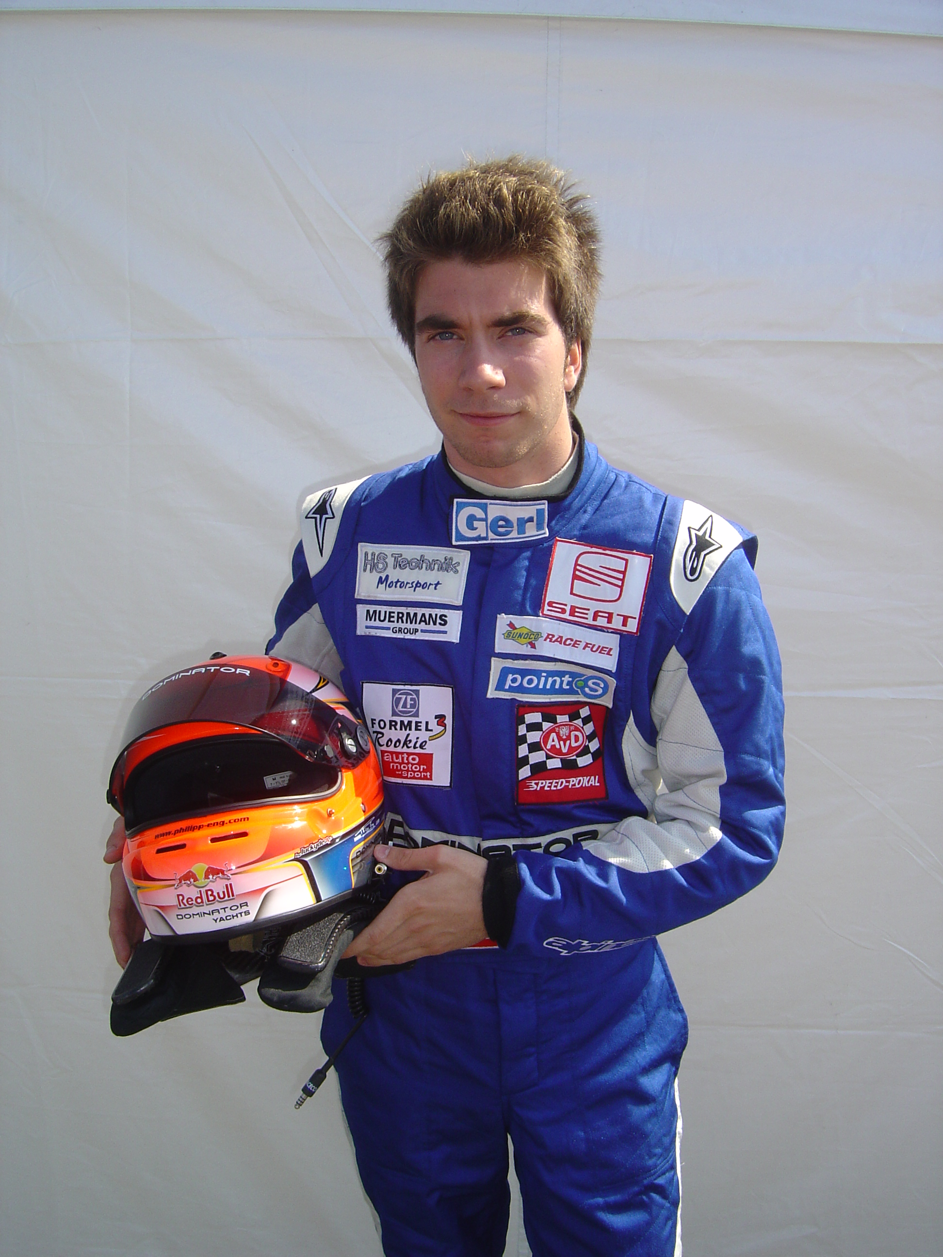 Philipp Eng: the photo was taken during 2008's Jim Clark Revival at Hockenheim